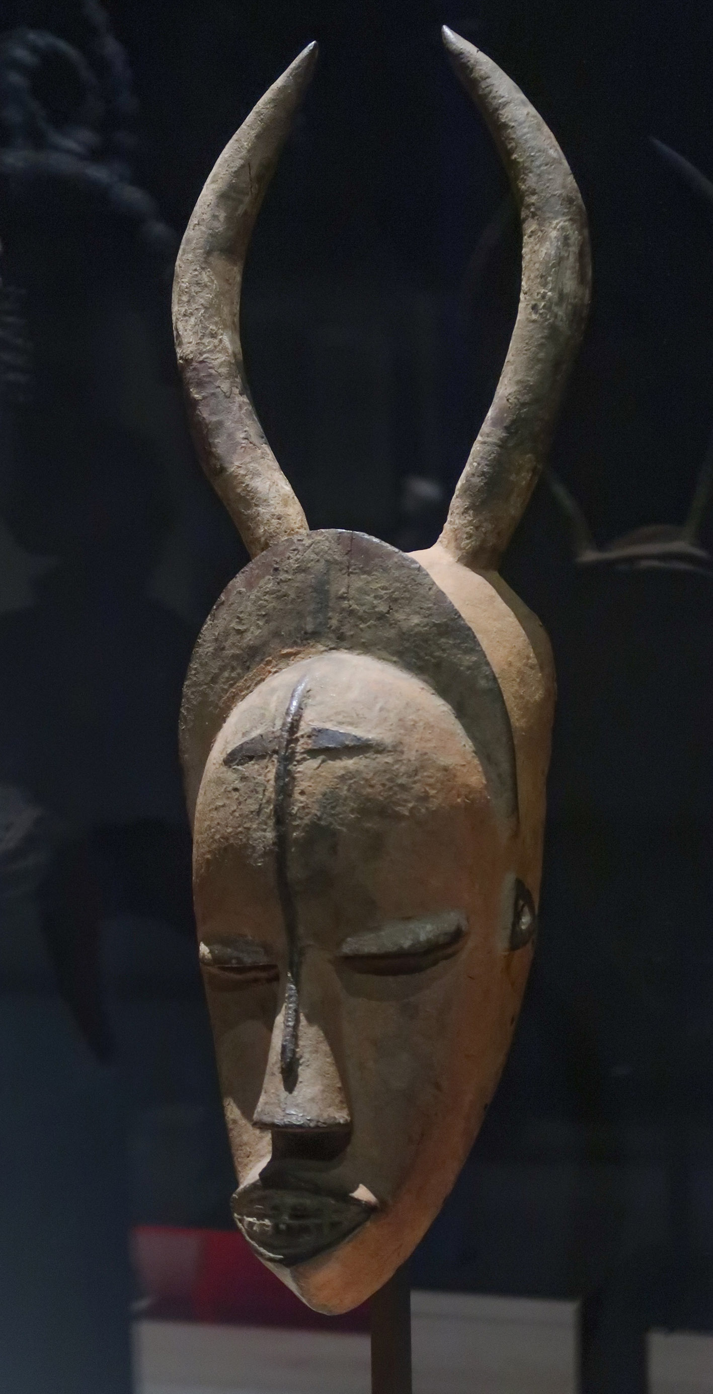 Mask. Nigeria, Niger Delta, Urhobo peoples. Wood, pigments. Gift of Ewa and Yves Delevon. Inv. 2018.14.27. Musée des Confluences, Lyon. France